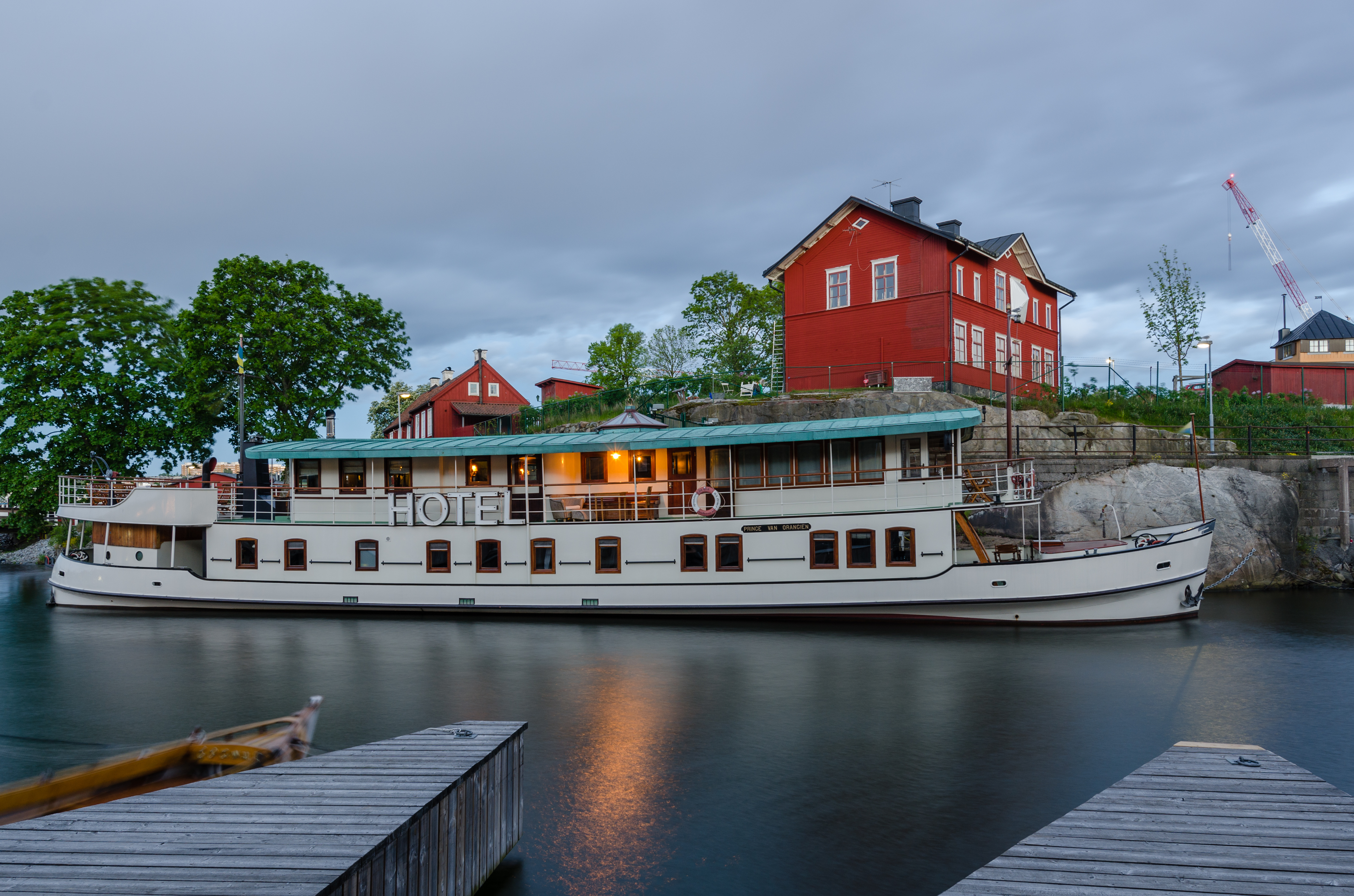 Hotel ship Prince van Orangiën in Djurgården, Stockholm. Built in the Netherlands in 1935 as the home and office for a shipowner.